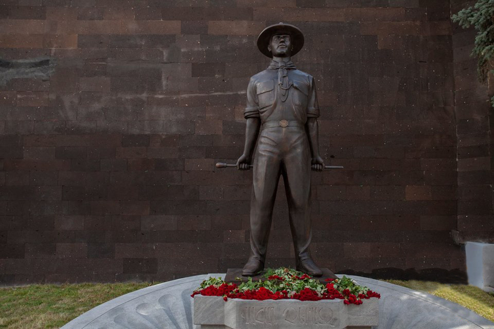 Monument to Vahan Cheraz